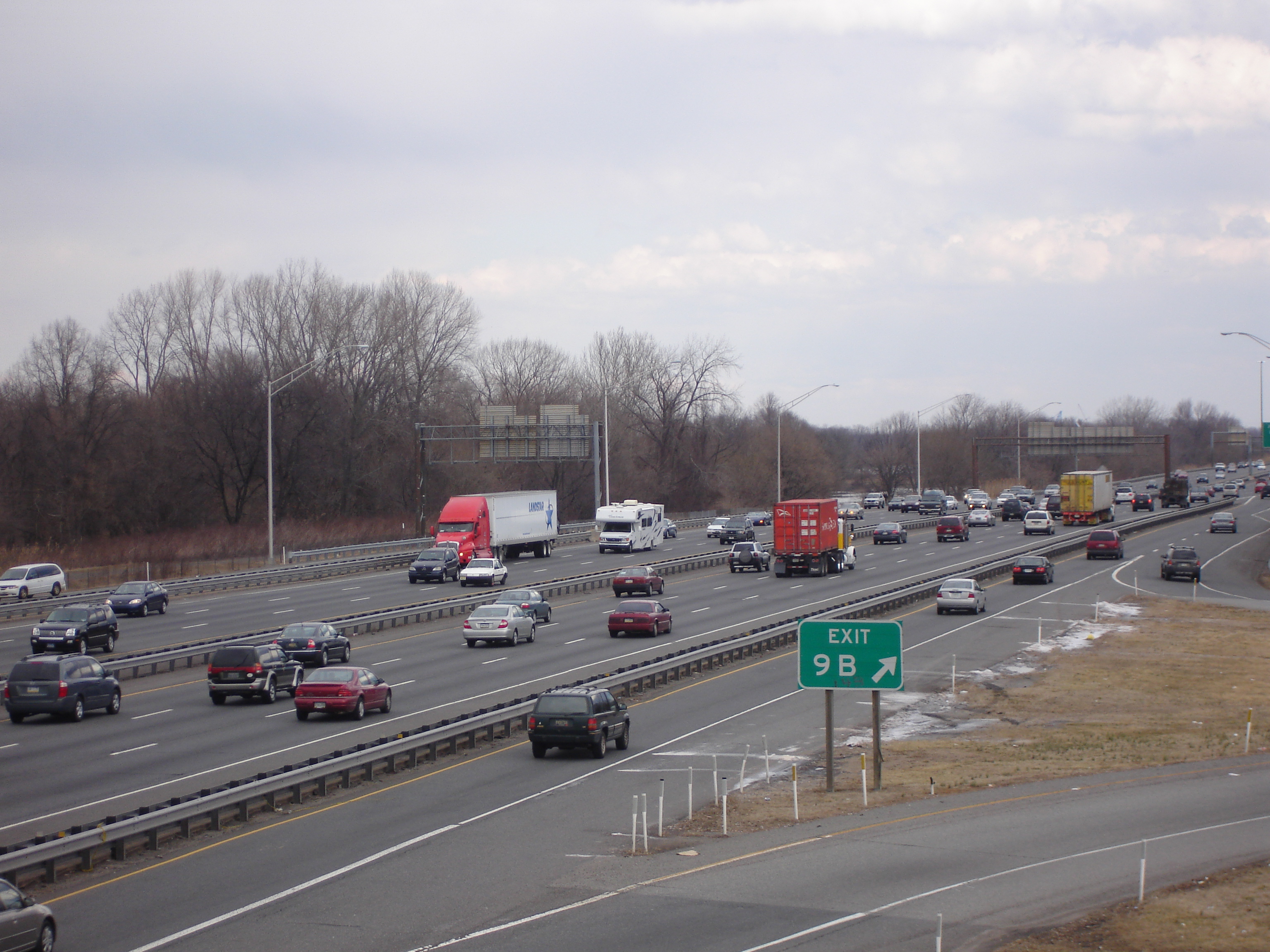 I-95 south of Philadelphia, from the Exit 9 cloverleaf